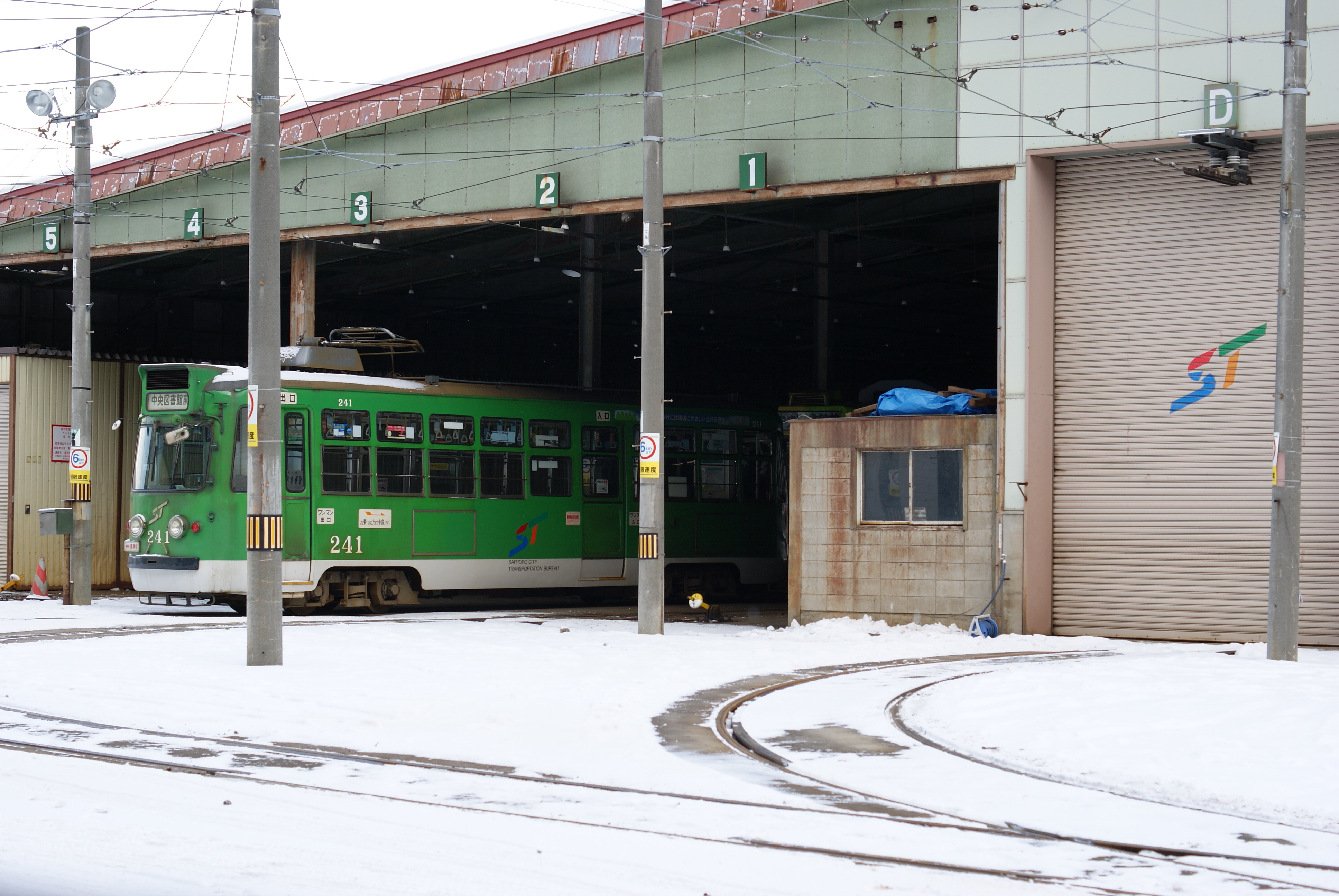 Sapporo Street Car 240 (241) at Sapporo Tram Depot. Sony DSLR-A330